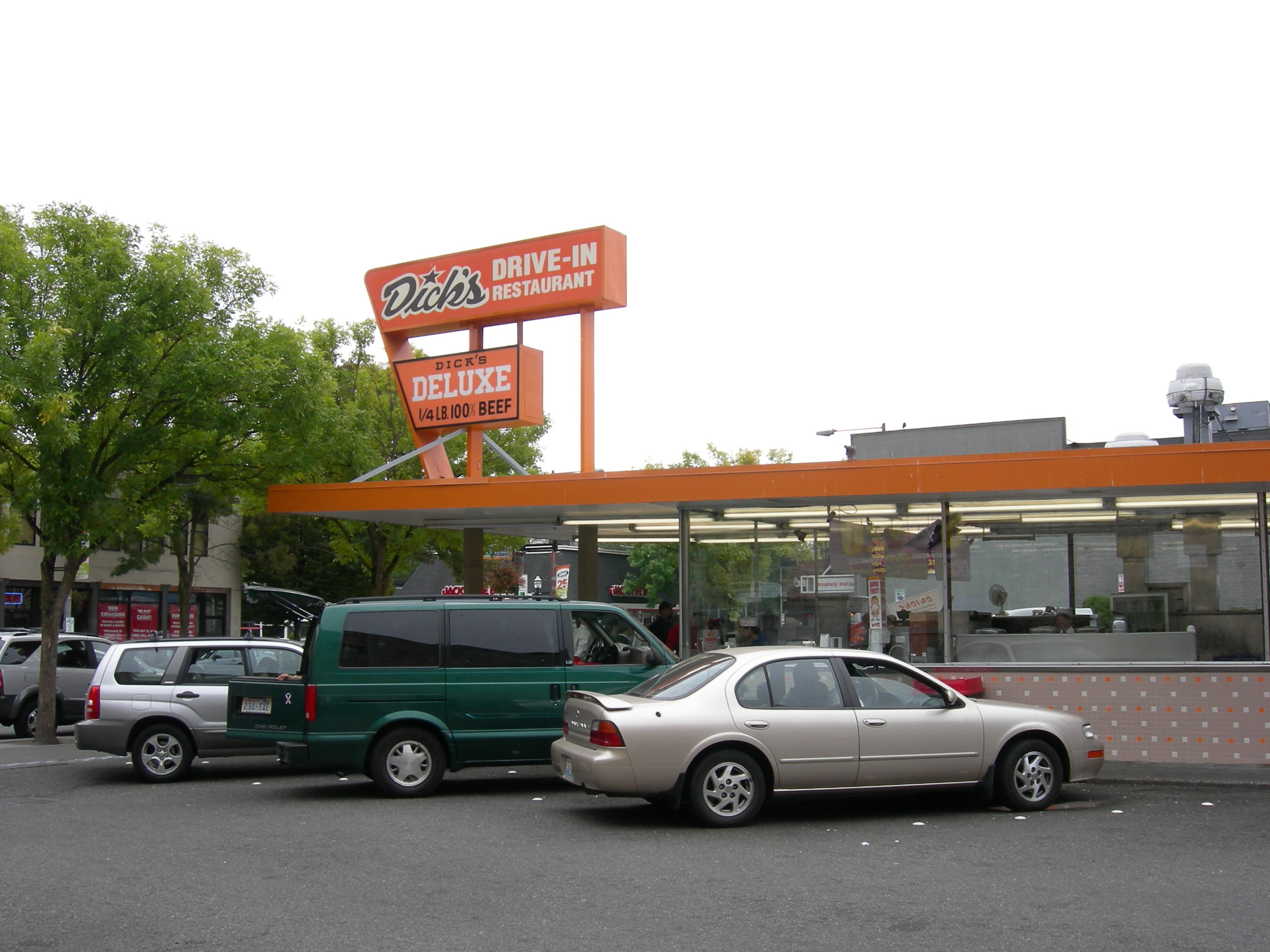 Dick's on Broadway, Capitol Hill Seattle. A Seattle fast-food institution, mentioned in Sir Mix-a-lot's song "Posse on Broadway": "Dick's is the place where the crew hang out..."